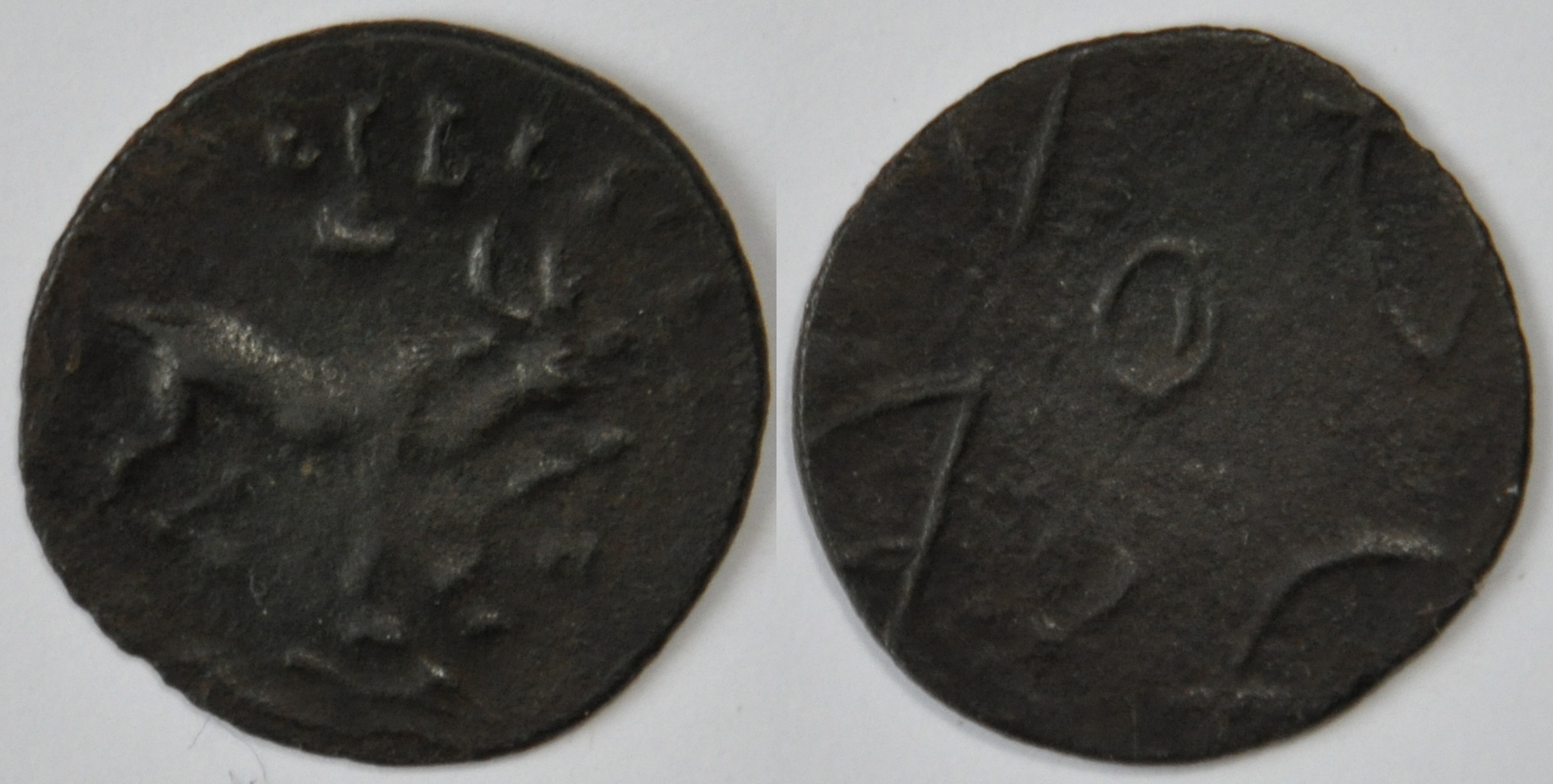 Une monnaie de la période post-Chutus (250-400) en bronze. (Deccan, Inde centrale) A/ Bœuf à droite; au-dessous ligne ondulée, au-dessus légende Rajavipurudapa R/ 4 arcs avec flèches et cercle central Dimension : 17 mm Poids : 1.21 g. Bronze Référence : Ganesh 4.9 Pas d'autres renseignements sur cette monnaie. Coins of rulers of India A coin of the post-Chutus period (250-400) in bronze. (Deccan, Central India) A / Beef on the right; Below undulating line, above legend Rajavipurudapa R / 4 arches with arrows and center circle Dimension: 17 mm Weight: 1.21 g. Bronze Reference: Ganesh 4.9